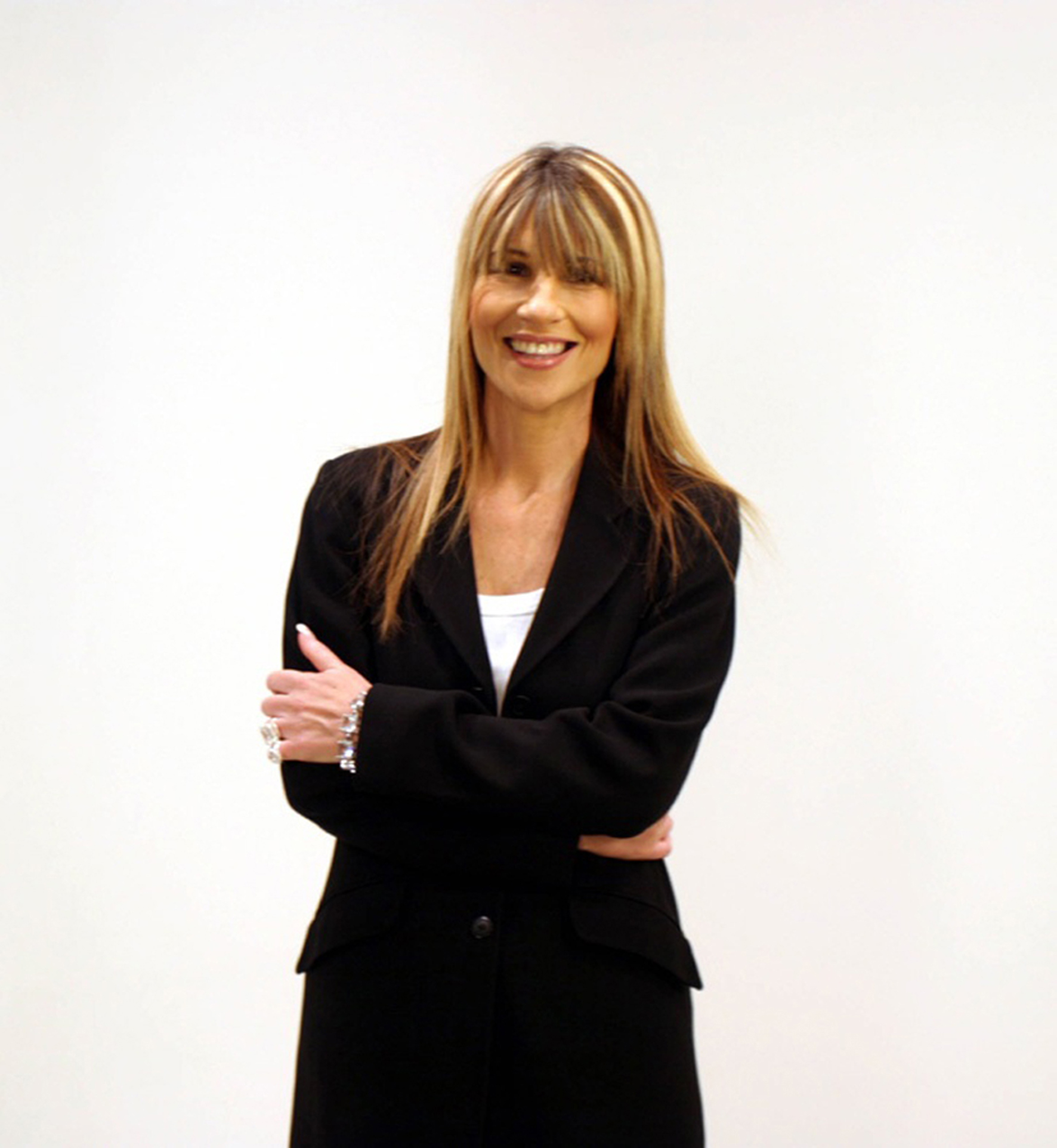 Wendy Alec, Co-Founder of GOD TV.